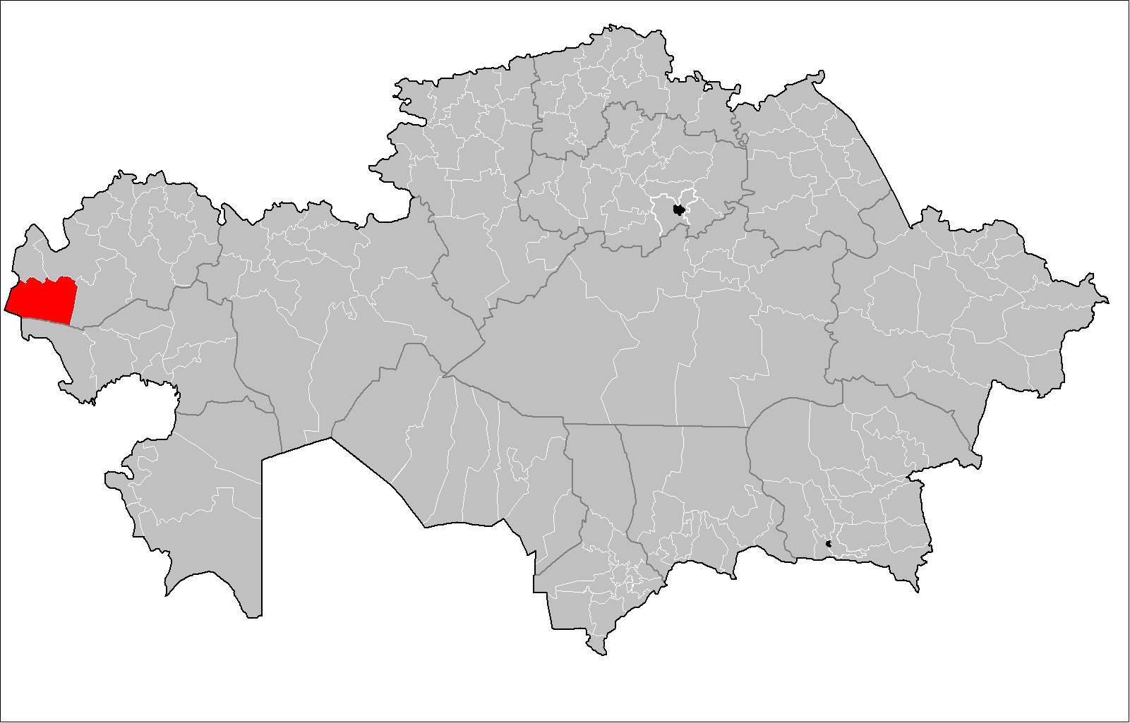 Map of the rayons of Kazakhstan. Created by Rarelibra 16:49, 3 August 2007 (UTC) for public domain use, using MapInfo Professional v8.5 and various mapping resources.